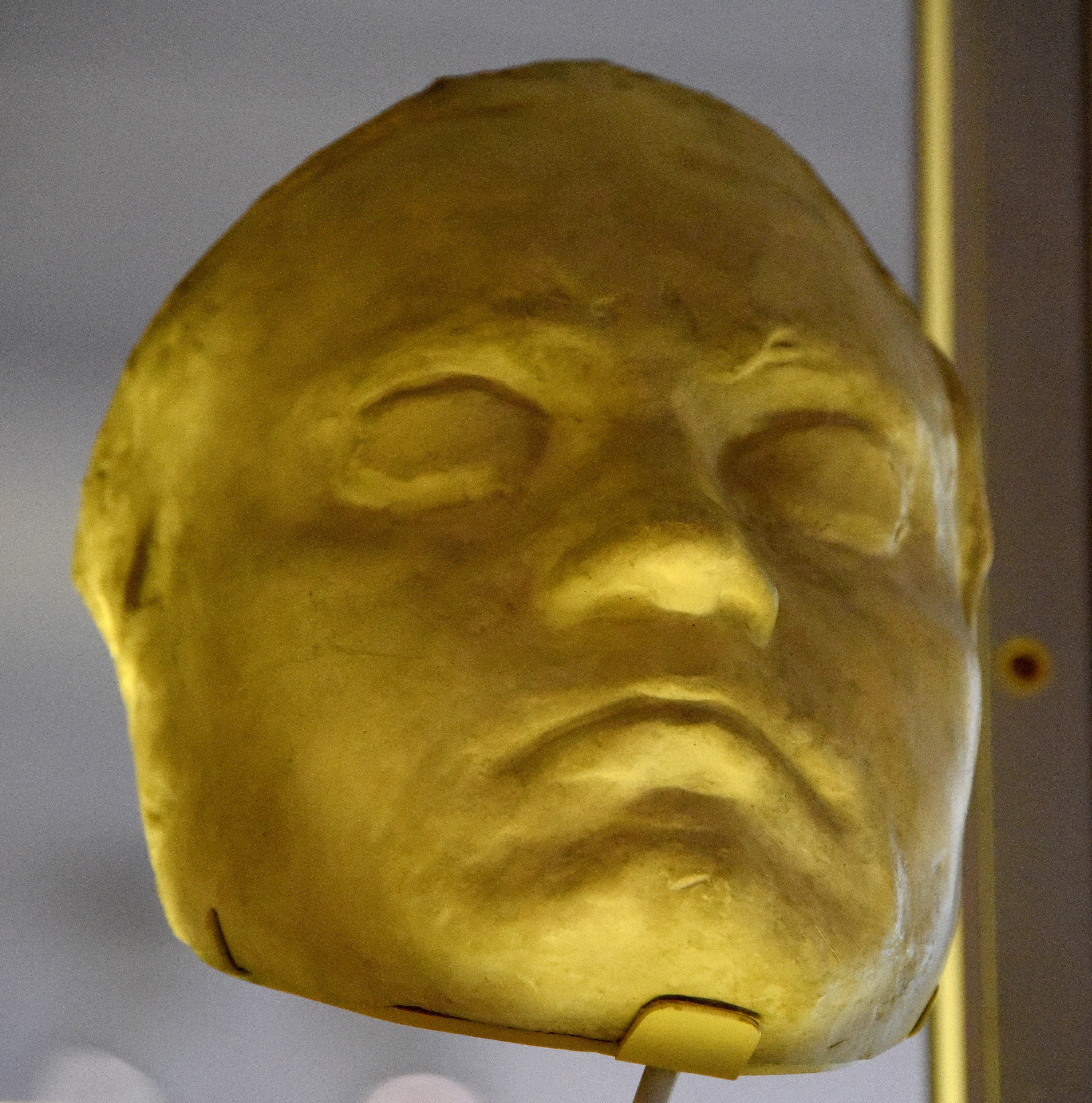 Life mask of Ludwig van Beethoven, c. 1812. The Wellcome Collection, London. This melancholic expression informed many later Beethoven portraits and helped to shape the German composer's image as an intense, morose, and troubled man.